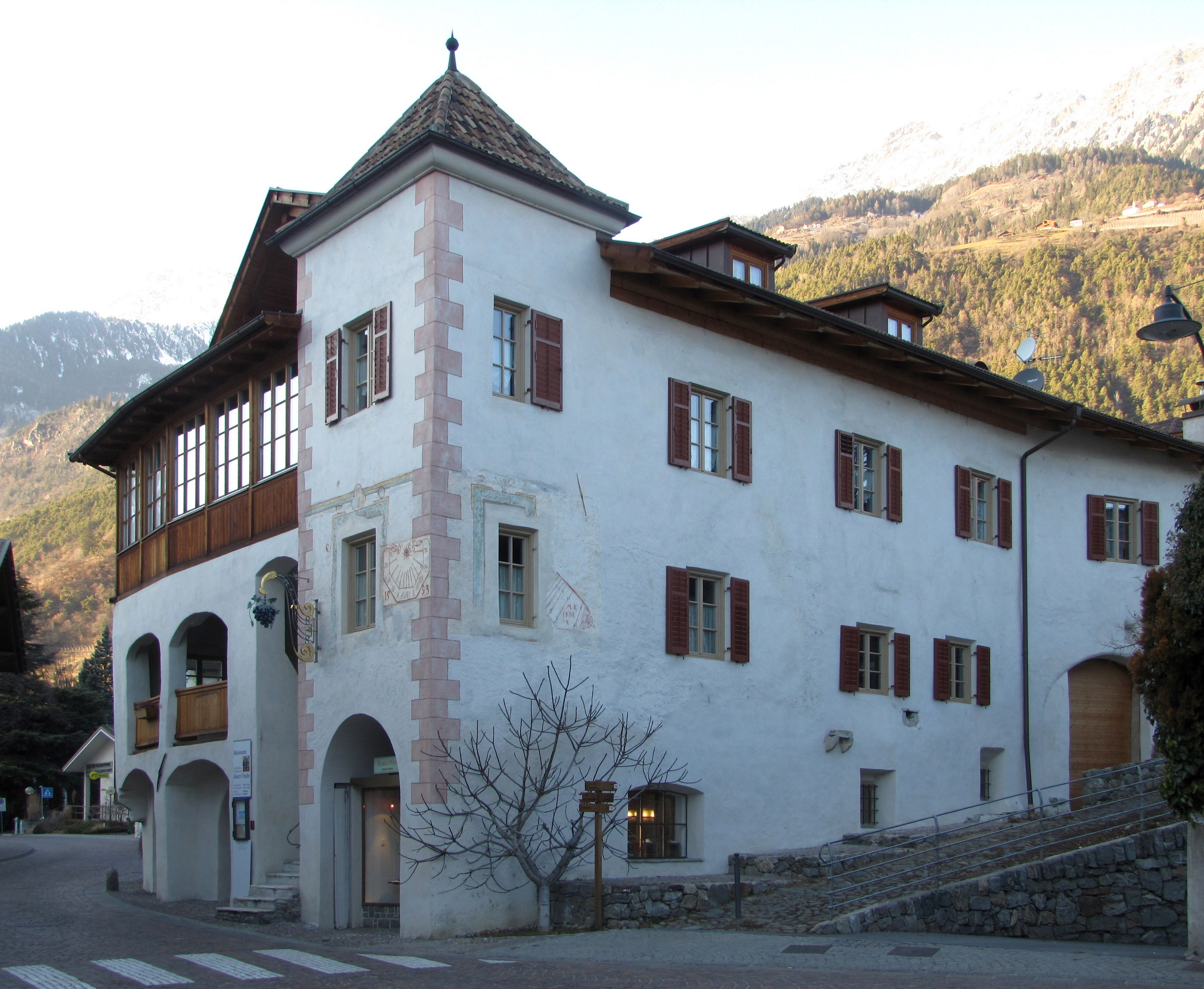 Historical inn An der Viehscheid , today "Zur Traube", Algund, South Tyrol. Mentioned in 1454, as inn in 1515.